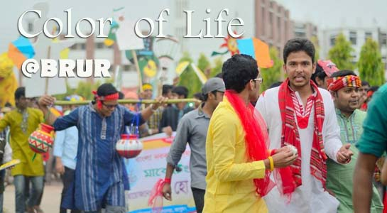 Its A picture of two Academic Building of Begum Rokeya University, Rangpur